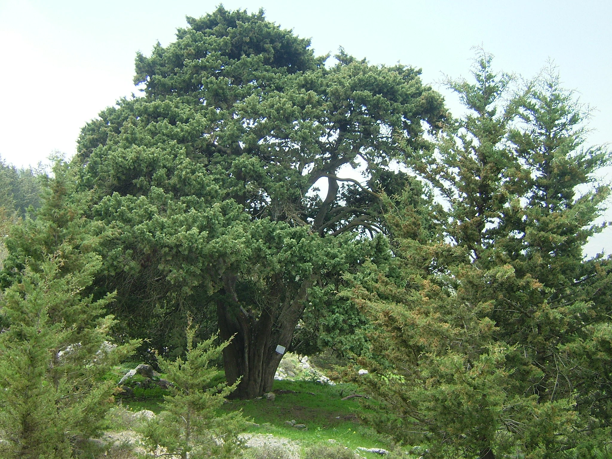 Mediterranean Cypress Cupressus sempervirens at Cheleuka forest in Pentadactulos mountain, Cyprus